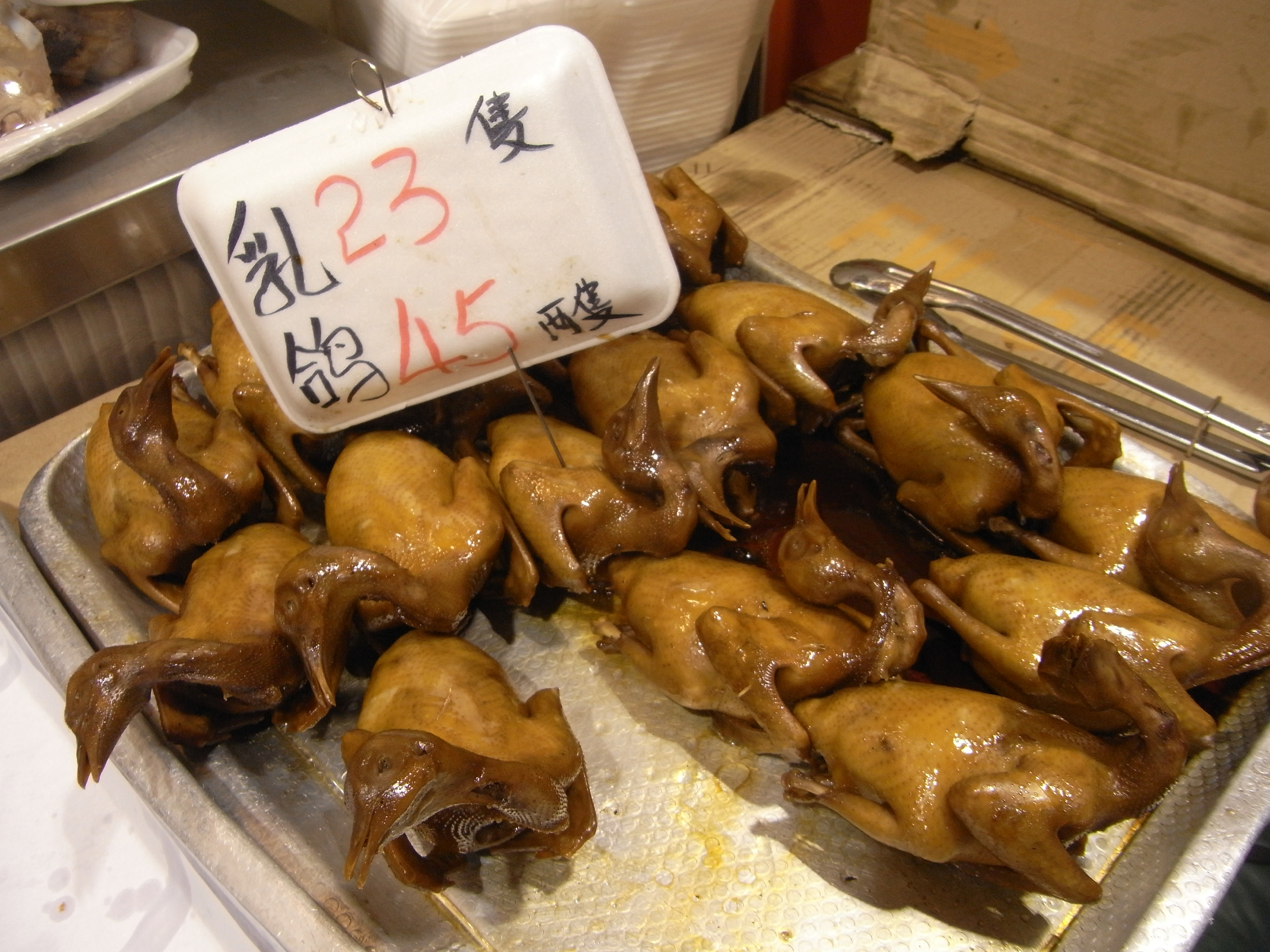 香港島東區 唐順興 乳鴿